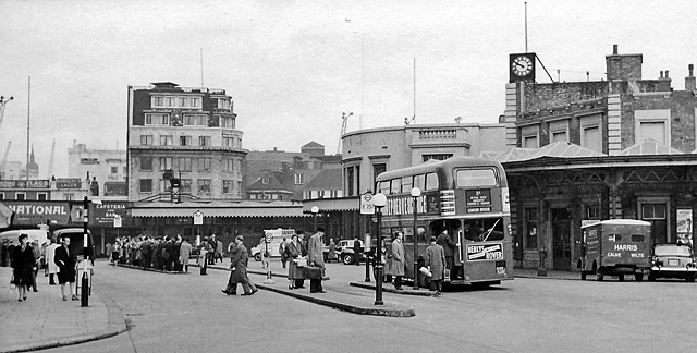 London Bridge Station: buses and people in Station Approach. View NE from the top of the steps up from St Thomas St., long before the major rebuilding of 1981. The Central Section station is to the right, the Eastern Section ahead. At the left is the bridge carrying the lines to Charing Cross and Cannon St., with beyond some of the cranes that used to line the wharves on the Thames.